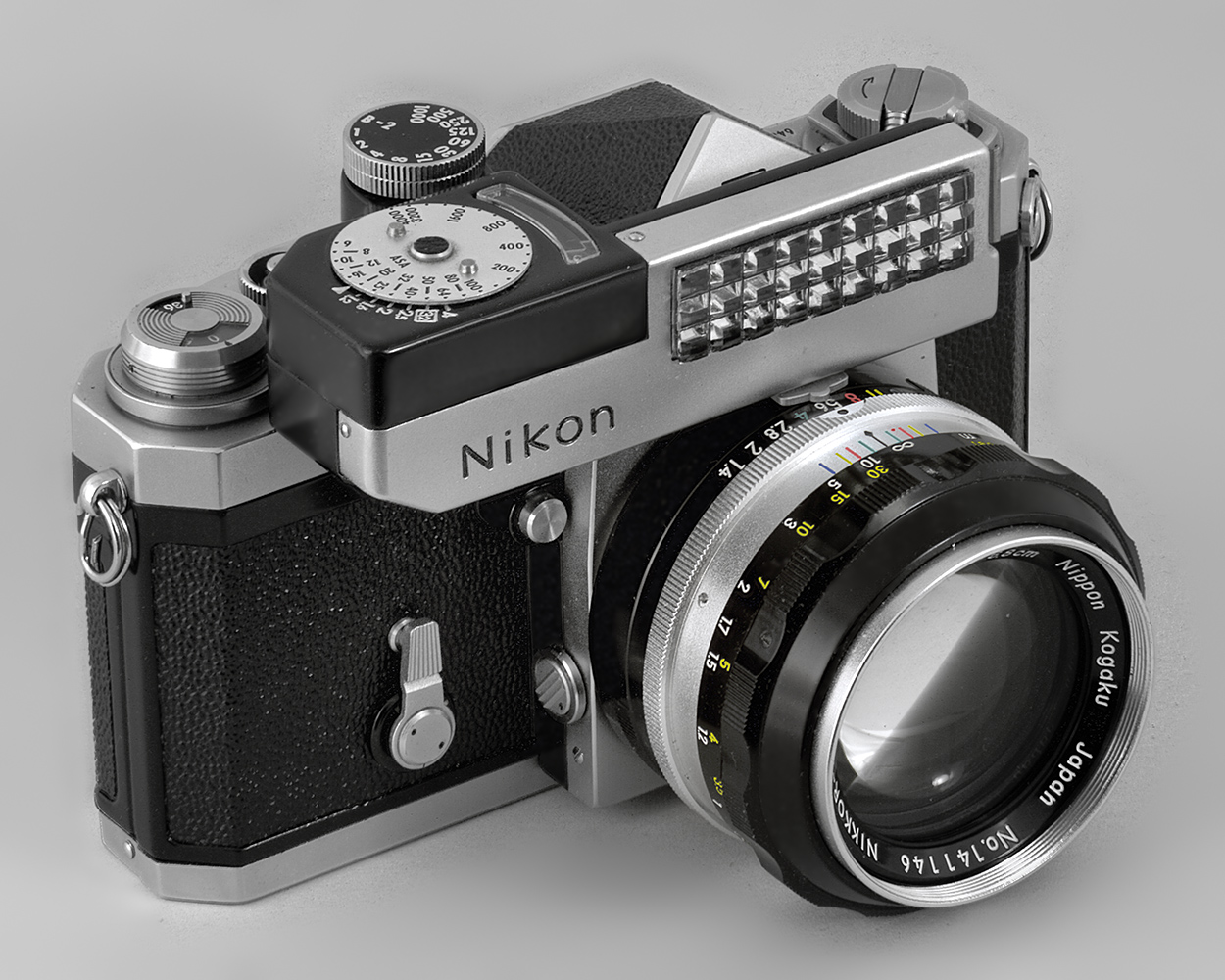 Nikon F film camera -- Eye-level ("plain") finder -- Clip-on exposure meter (no batteries) -- NIKKOR-S Auto 1:1.4 f=5.8cm lens Taken with a Canon 20D and Canon 100mm f/2.8 Macro lens at f/8. 73 1/3-second exposures at ISO100 in a focus stack were combined with Helicon Focus lite 5.0 (method A, to reduce noise at the expense of sharpness)